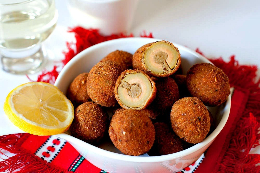 « Olive all'ascolana », stuffed olives, typical recipe from the Marches – Italy.